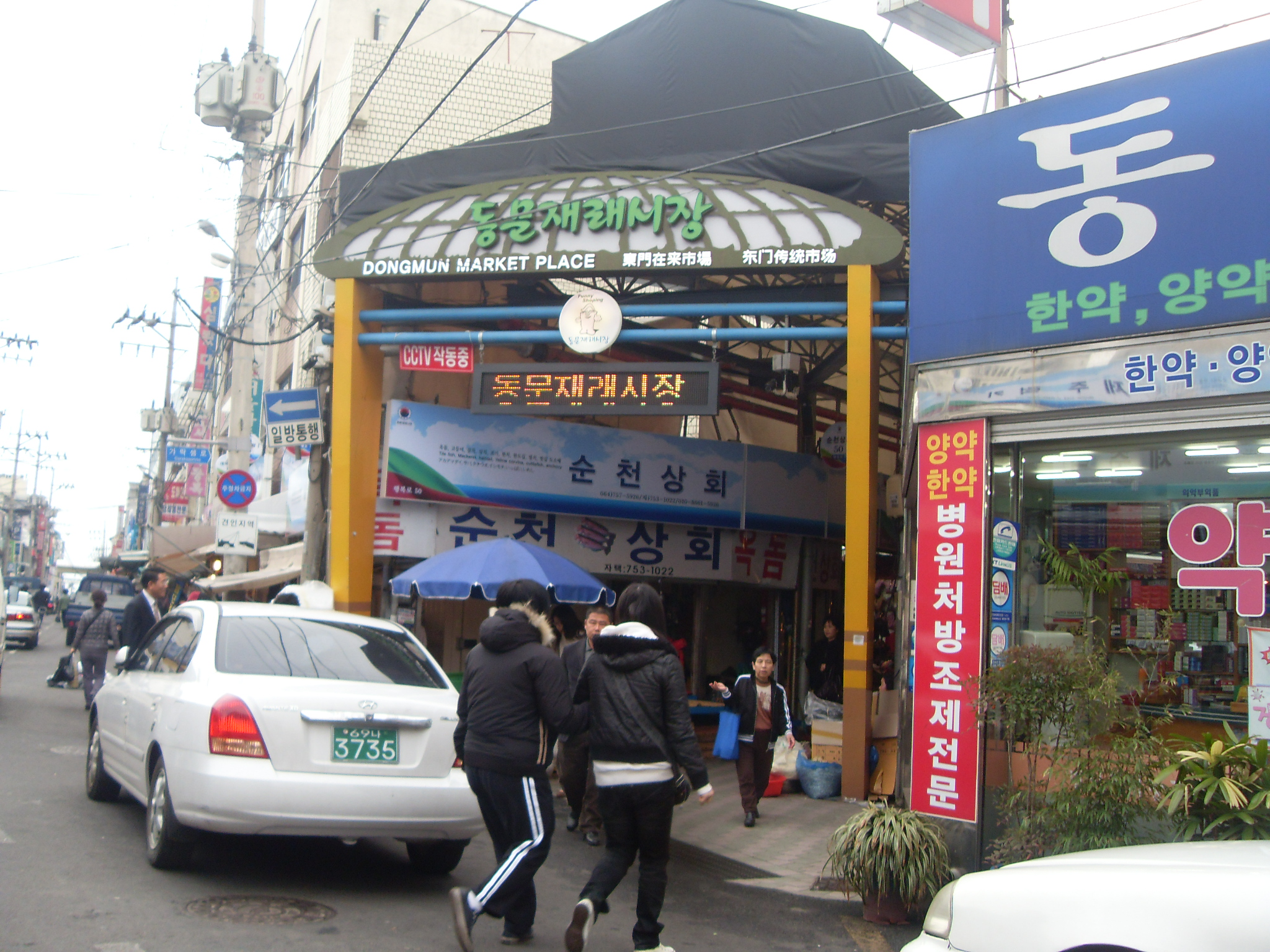 Jeju dongmun market